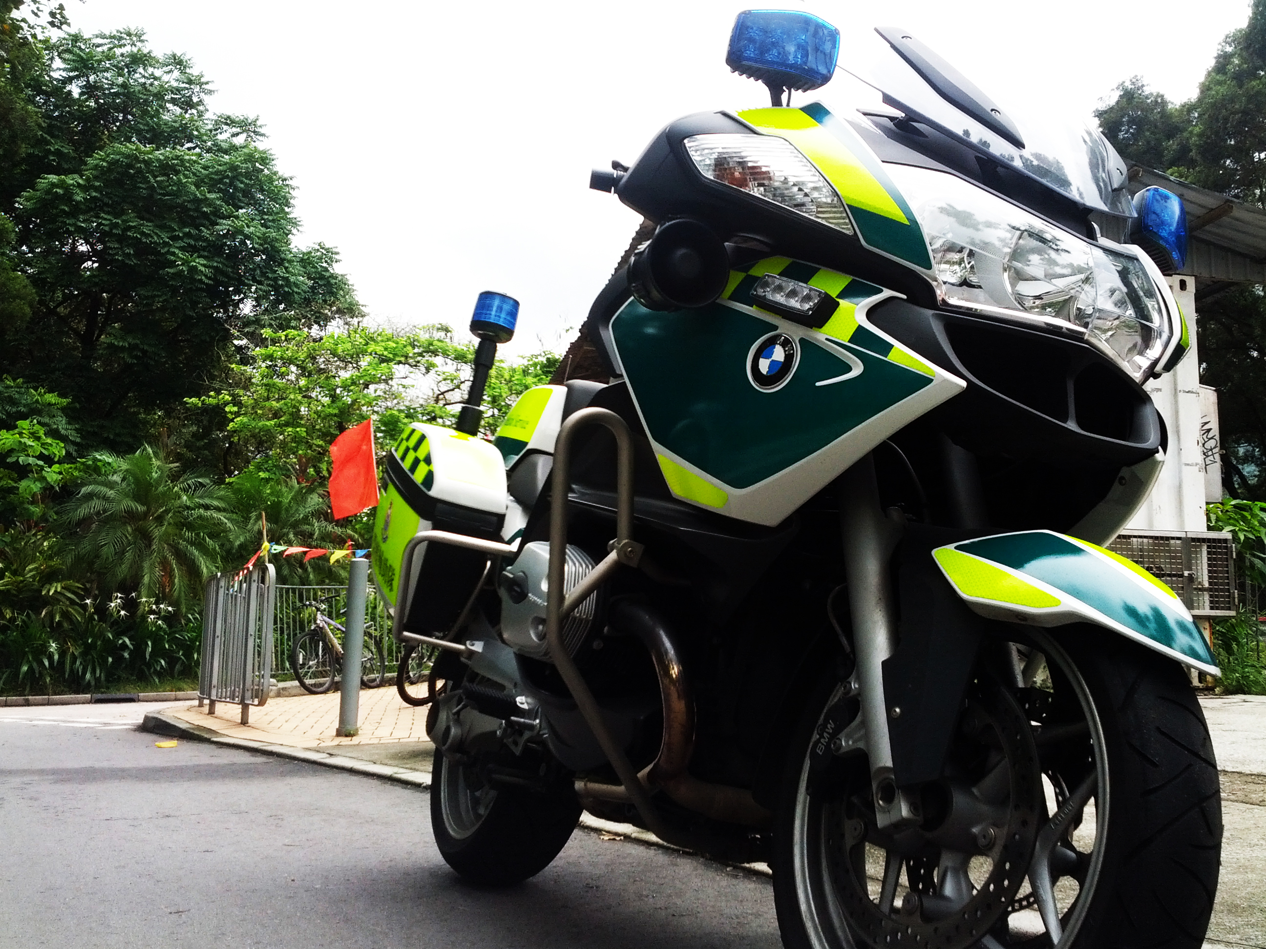 Auxiliary Medical Service Ambulance Motorcycle AM697